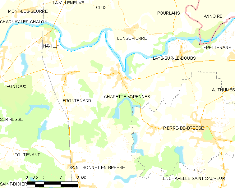 Map of French municipality